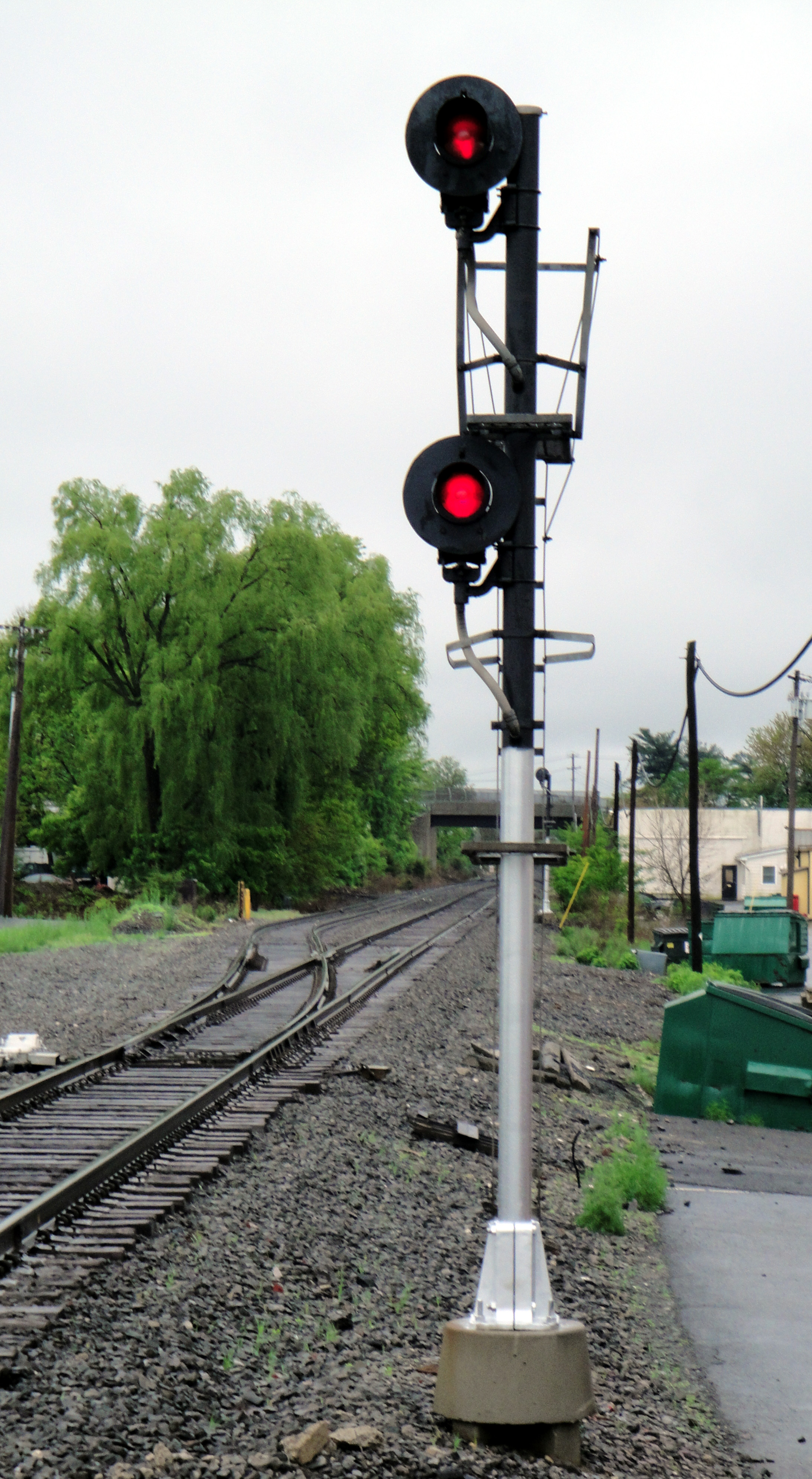 View of searchlight-style railroad signal on CSX River Subdivision at CP (controlled point) 90 in Kingston, New York. Looking south towards Kingston Yard. The signal, manufactured by General Railway Signal Co., is displaying the "Stop" indication.